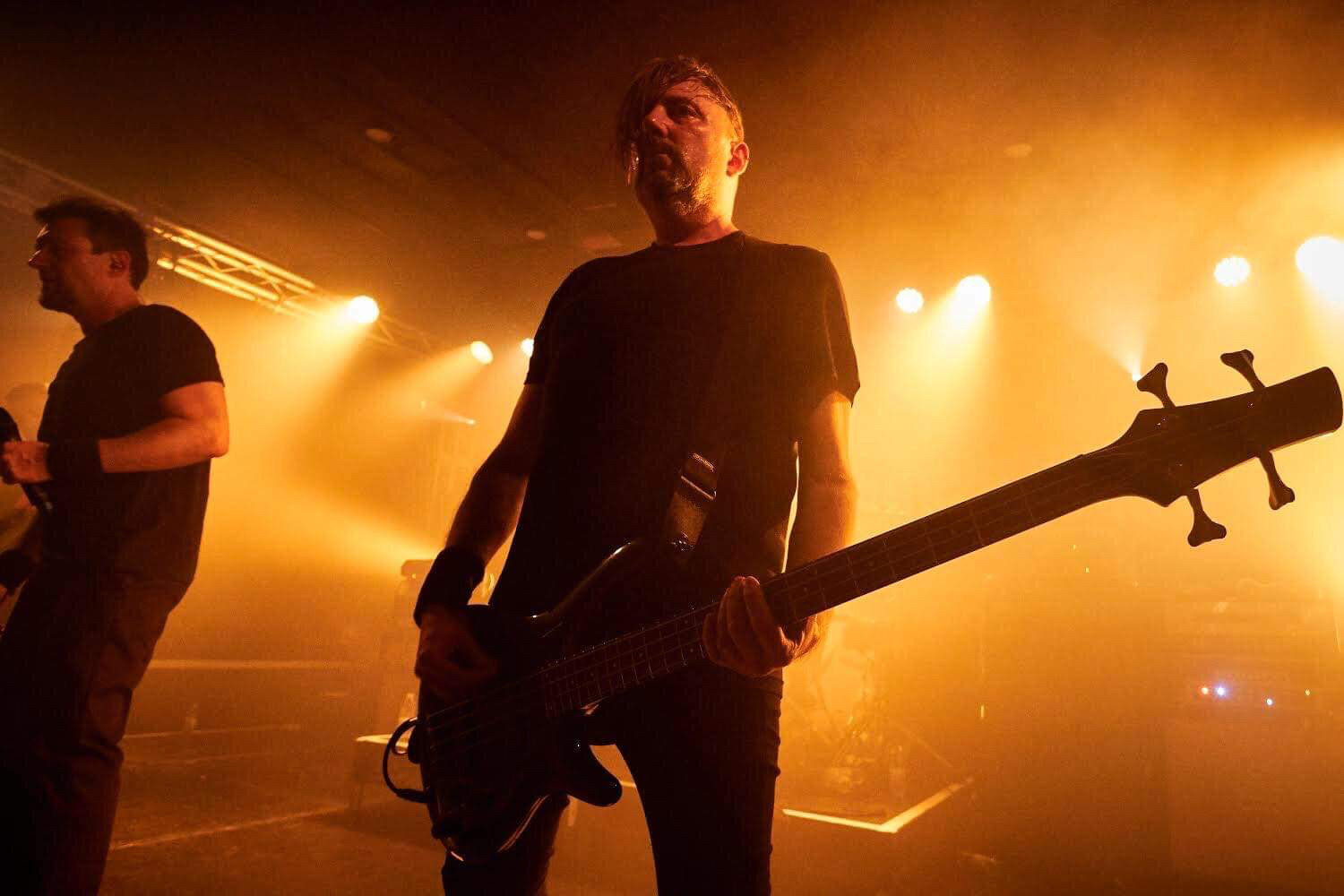 Mark Clayden Bass